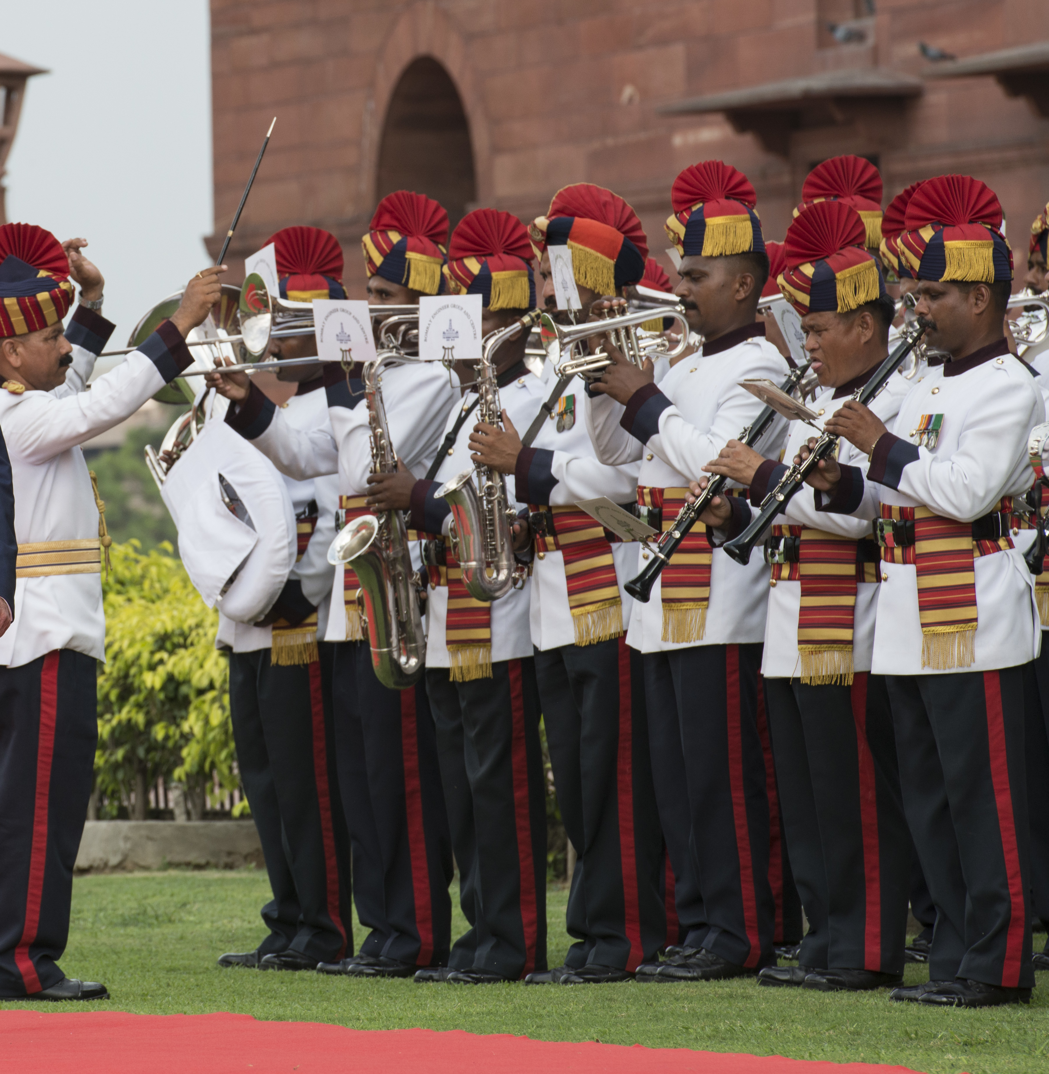 New Delhi, India (Aug. 8, 2014) -- Secretary of Defense Chuck Hagel is honored at a Guard of Honor ceremony in New Delhi, India, August 8, 2014. DoD photo by Petty Officer 2nd Class Sean Hurt/Released.